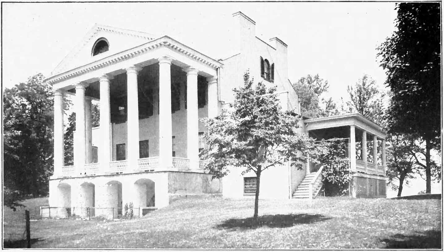 Black and white photograph of Oak Hill, the home of United States President James Monroe near Leesburg, Virginia